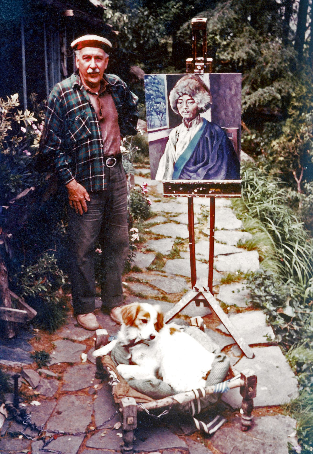 I took this photo of Alfred c. 1980 at his home at Dharmkot, Dharamsala, India.